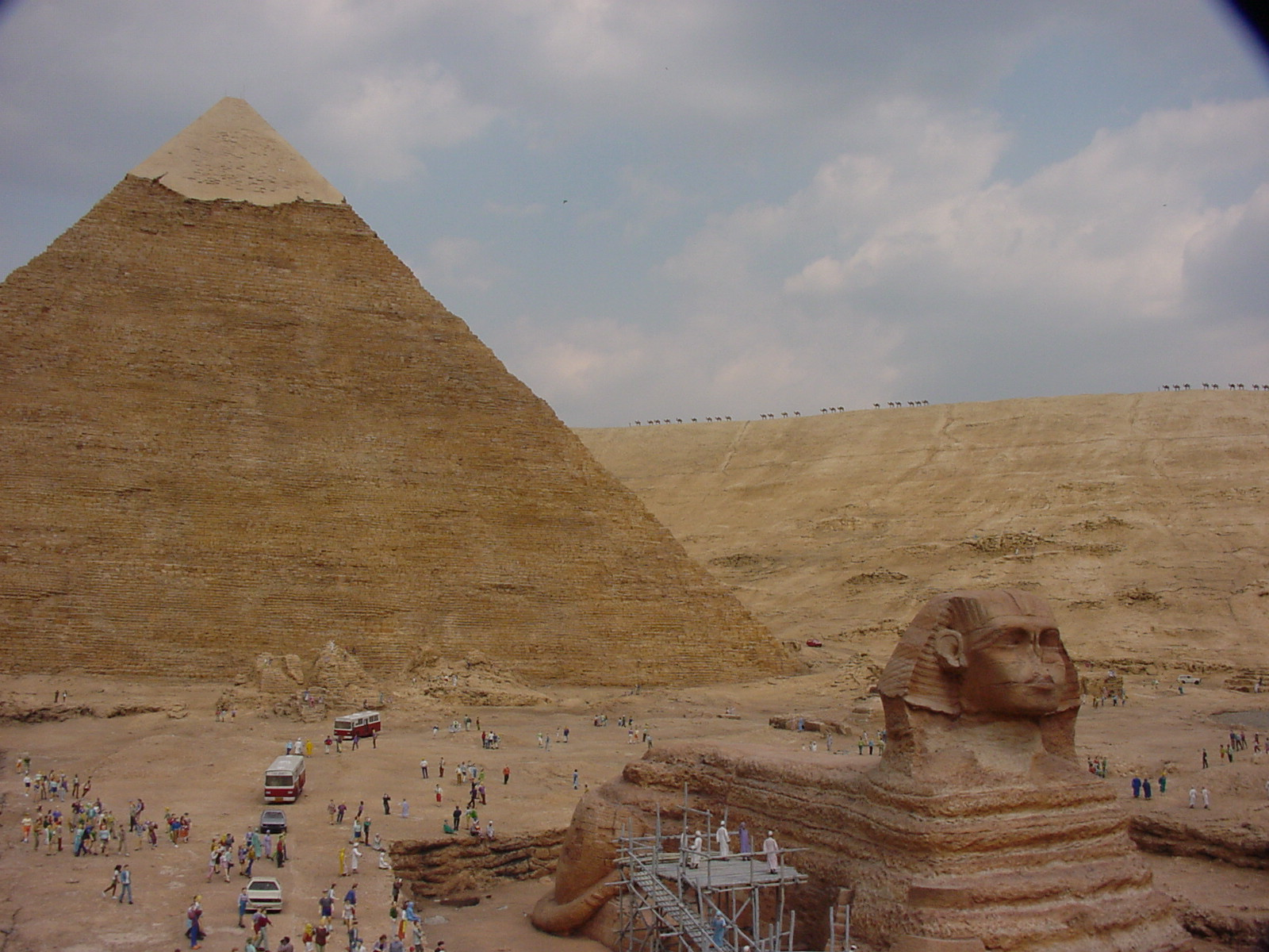 1:25 scale miniature Pyramid of Khafre and the Great Sphinx at Tobu World Square (Japan)